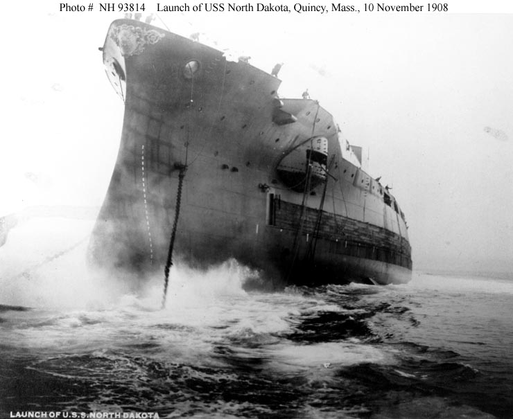 USS_North_Dakota_(BB-29) at her launch, 10 November 1908